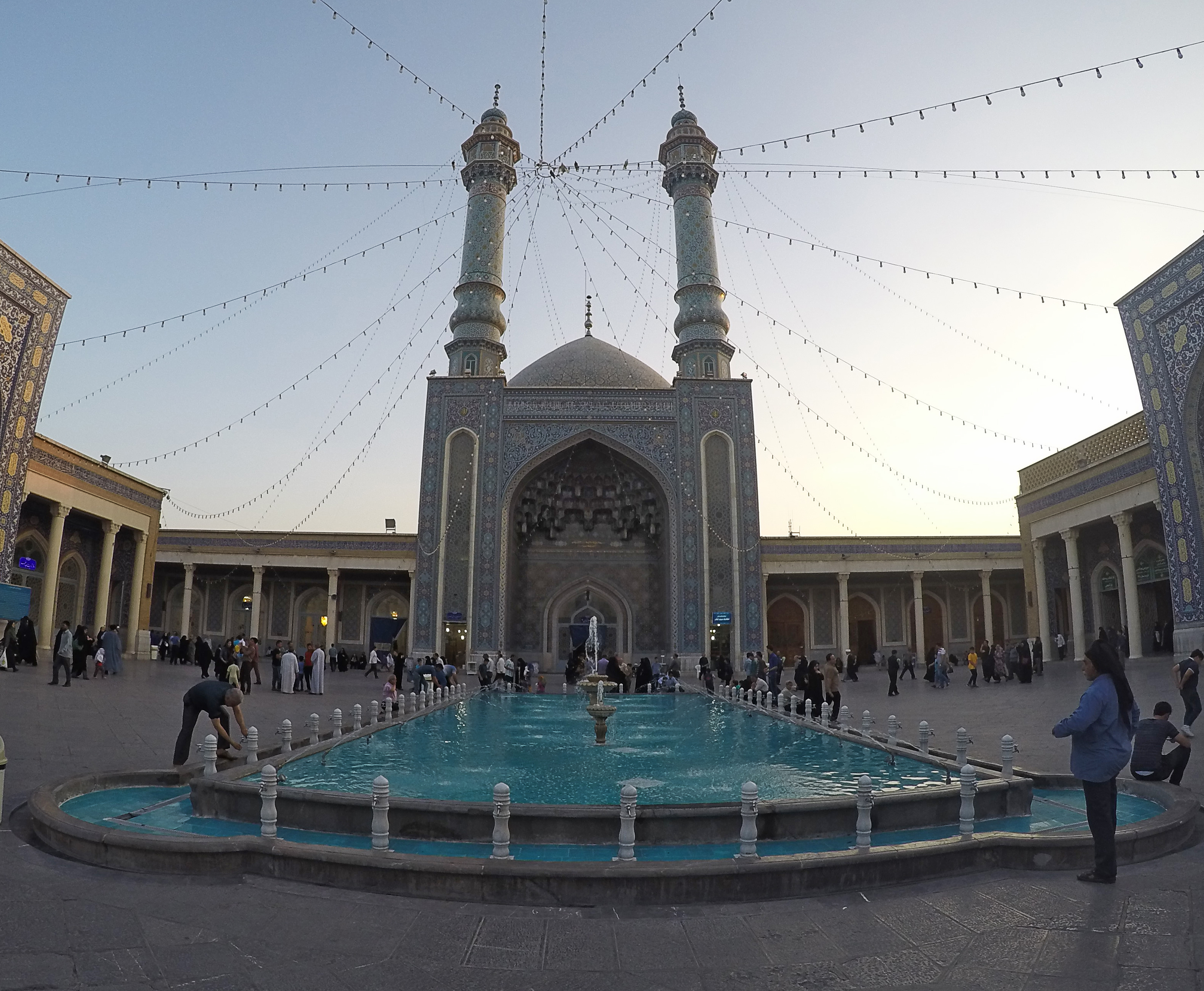 Azam Mosque of Qom next to the Masumeh Shrine.